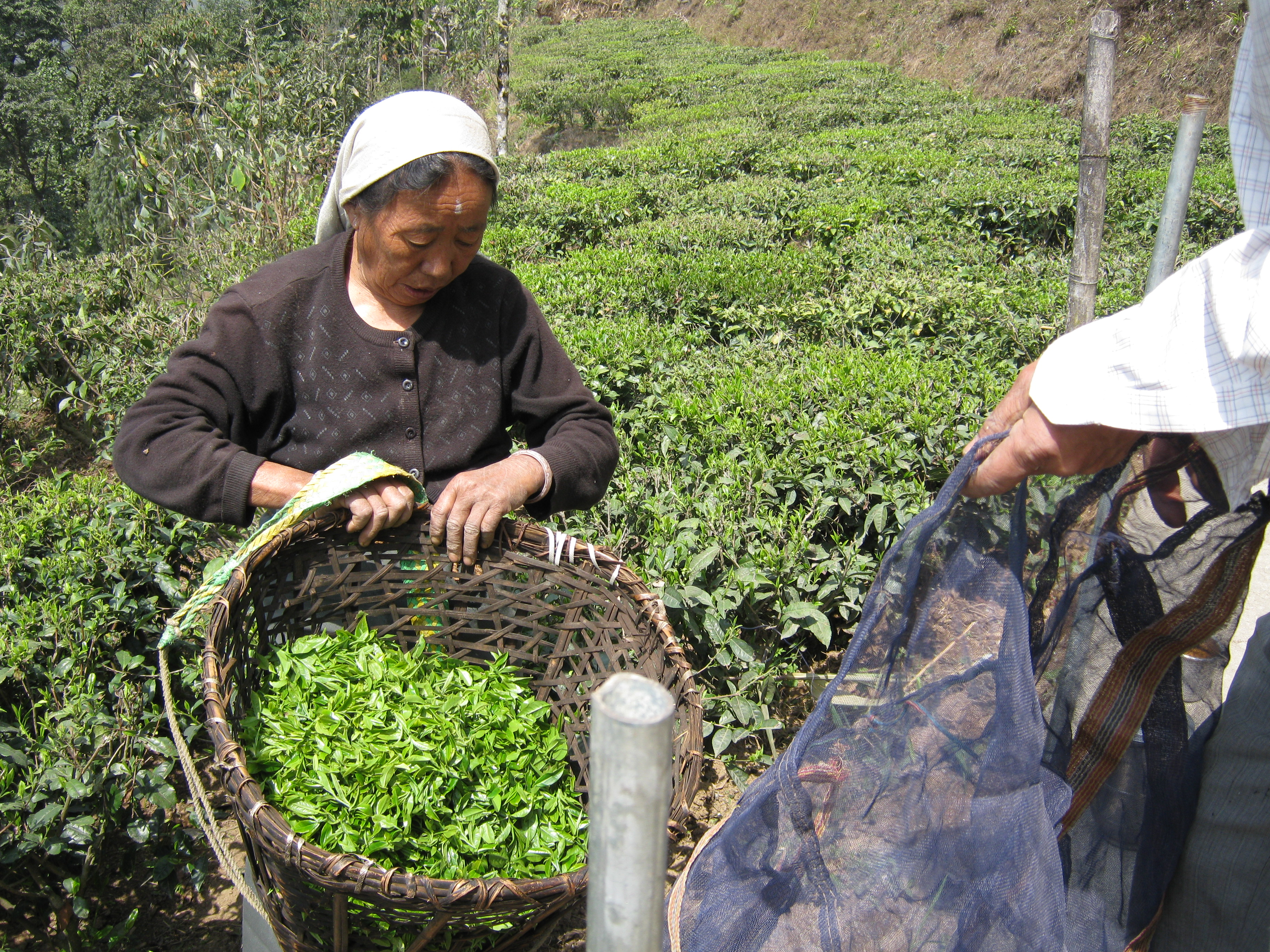 The tea manufactured by Niroula's Tea Farm, is not just going to be a delightful cup of tea early in the morning but also an assurance of good health.